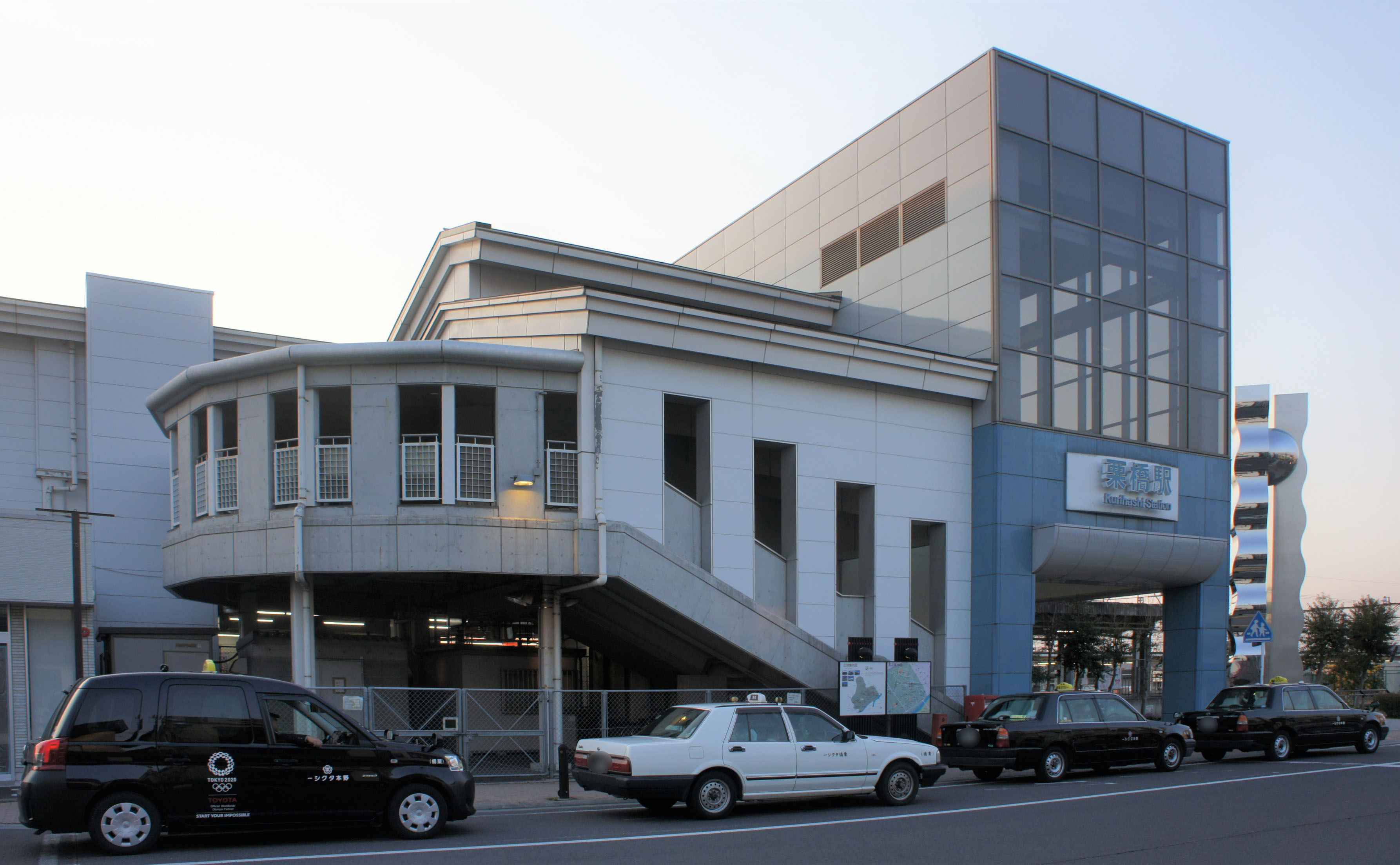 East Exit of JR Tohoku-Main-Line (Utsunomiya-Line) Kurihashi Station Sony NEX-3